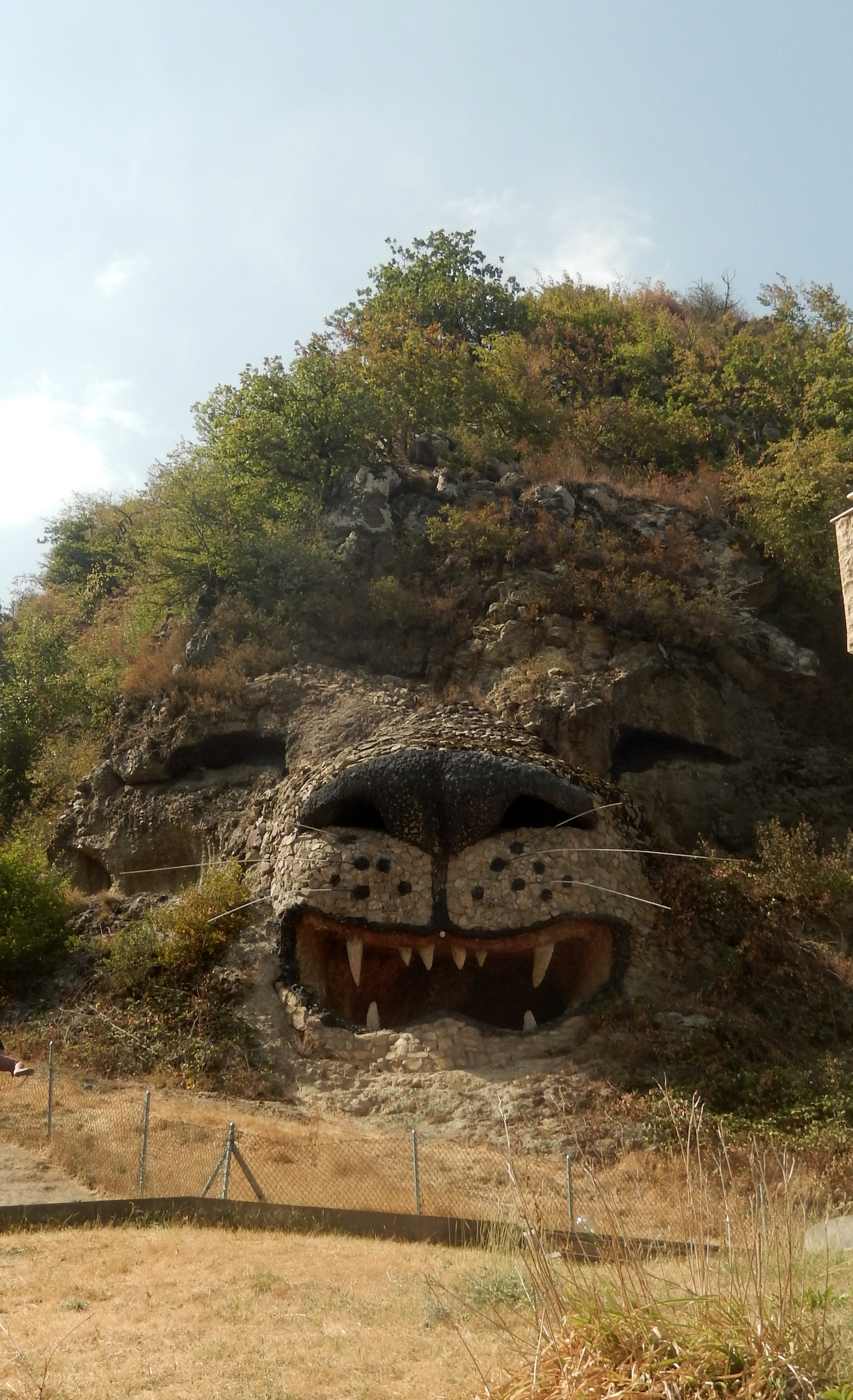 Cave Lion in teh villag eof Vank, Martakert Region, Artsakh